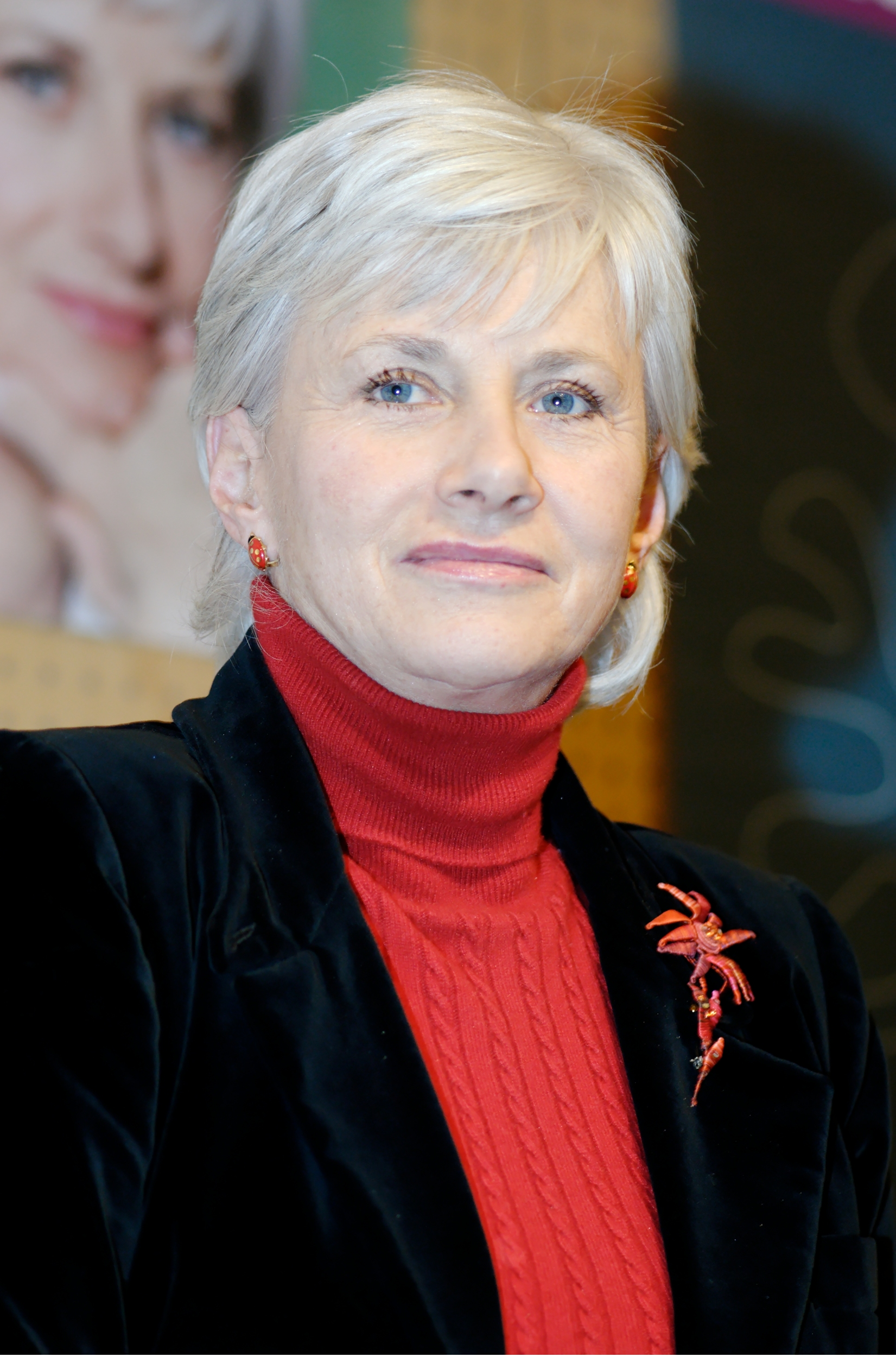 Françoise de Panafieu at a political rally held with Jean Tiberi at the Palais de la Mutualité (Paris) for the 2008 town elections.